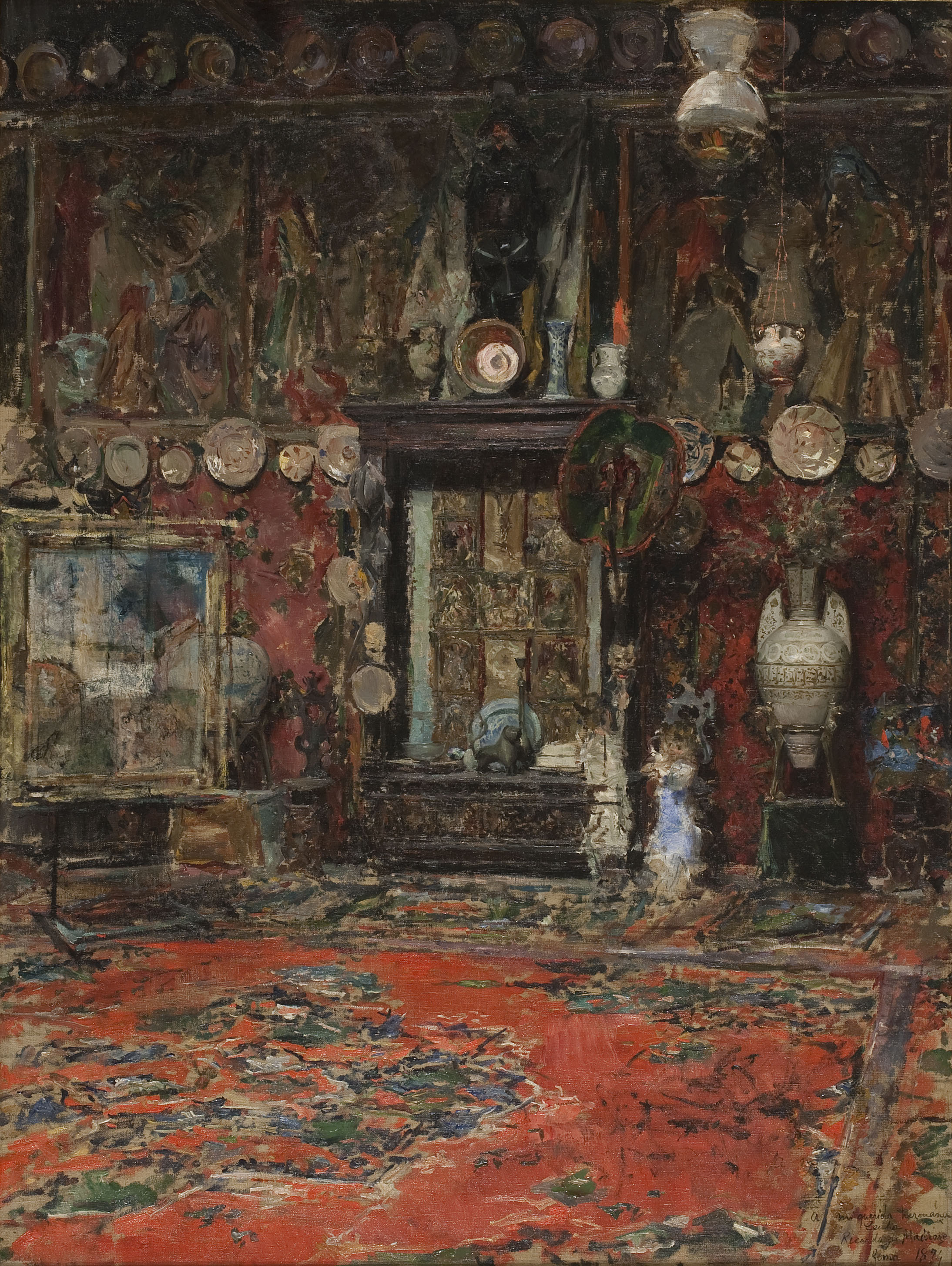 Mariano Fortuny's Studio in Rome